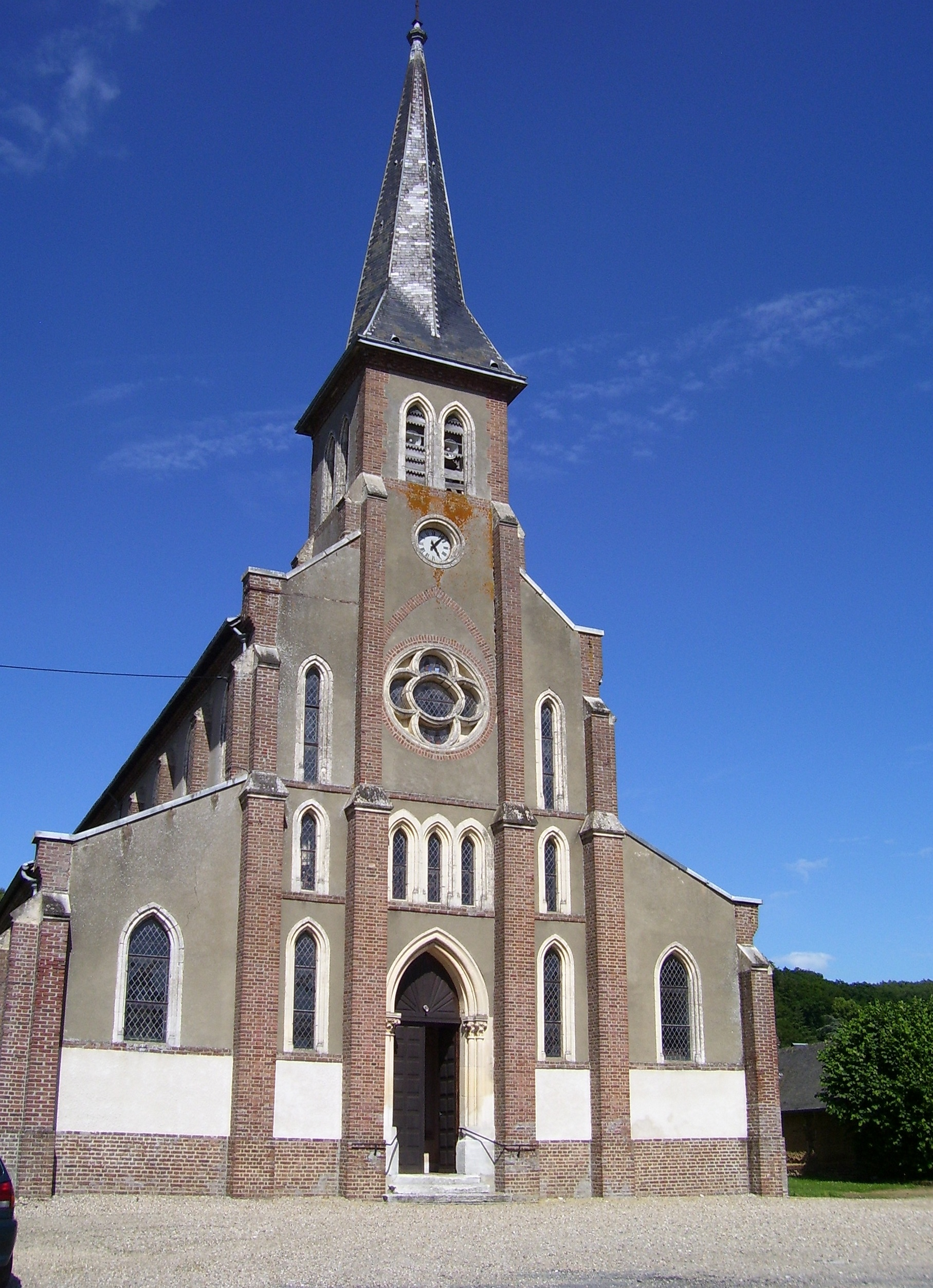 The Church Saint-Louis in Pont-Authou (departement Eure, Haute-Normandie, France) was built from 1865 to 1872 on the place of a destroyed church of the 13th century.